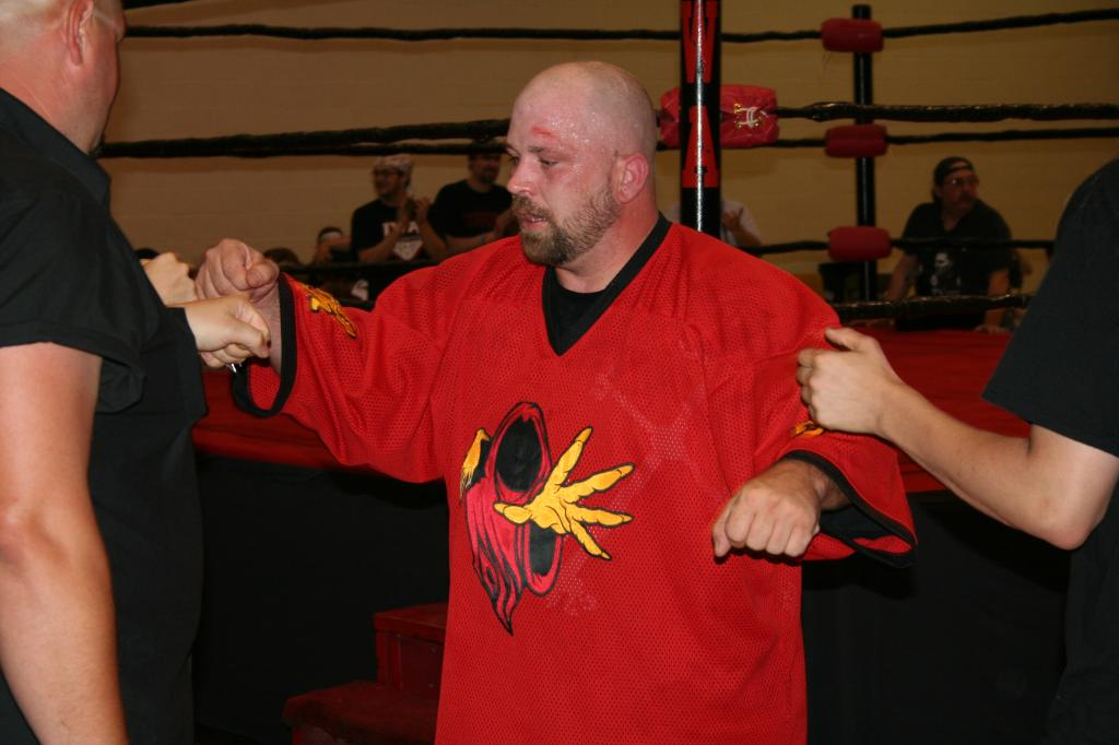 2 Tuff Tony at the 2008 Ted Petty Invitational